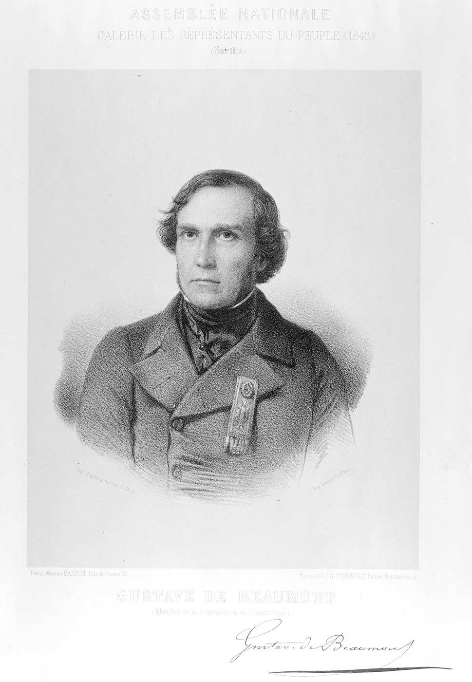 "Gustave de Beaumont," portrait from "Assemblee Nationale Galerie des Representants du Peuple," 1848. Courtesy of the Beinecke Rare Book and Manuscript Library, Yale University, New Haven, Conn.